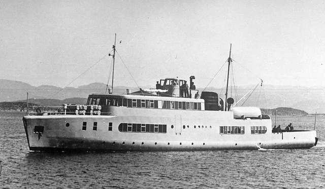 Norwegian car ferry MF Fjorddrott, built in 1939. Norsk (bokmål): Bilfergen (også kalt sjøbuss) MF «Fjorddrott» fra 1939.